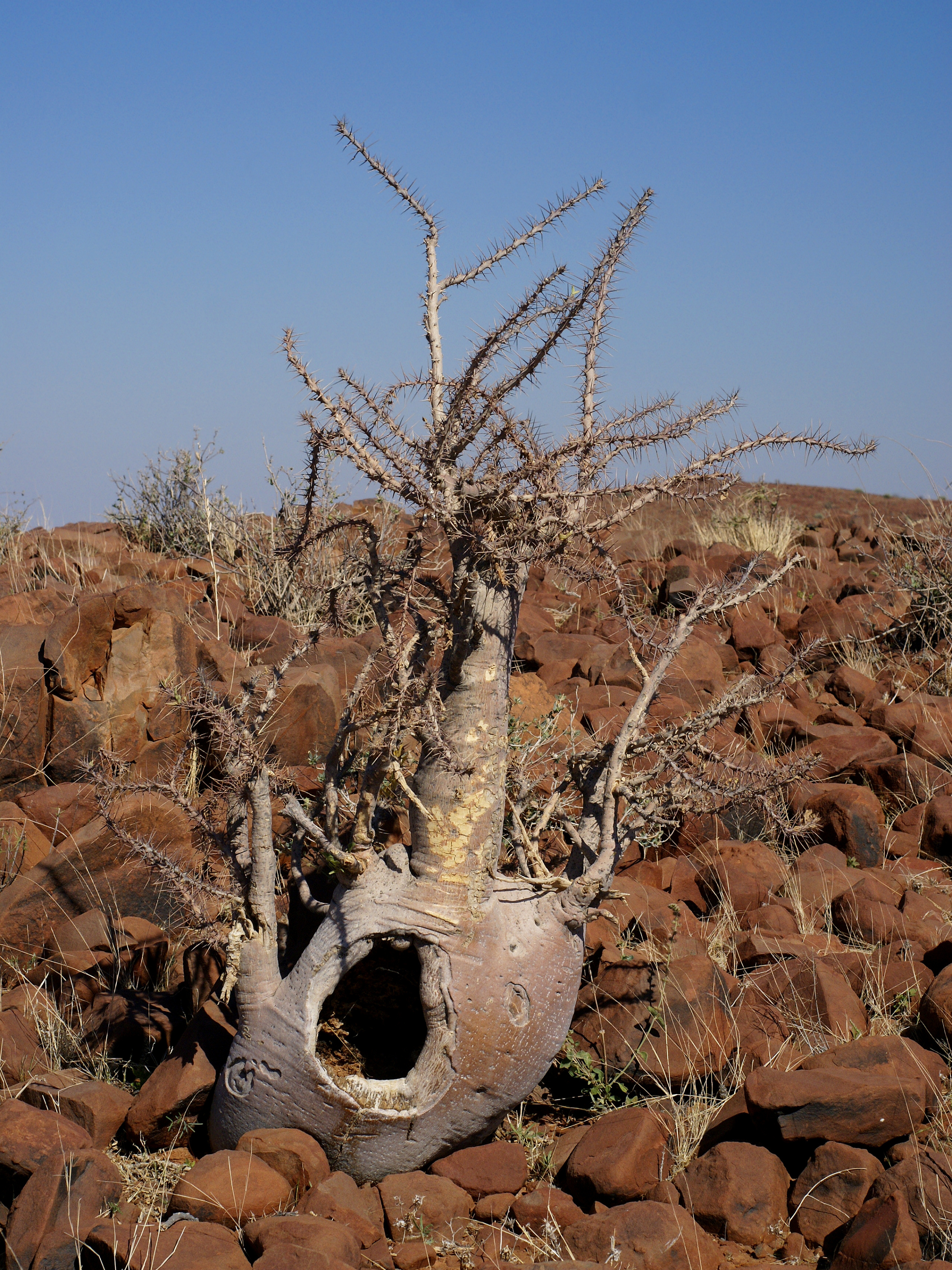 A Bottle tree close to Palmwag in north western Namibia.Size: ≈1.5 m high